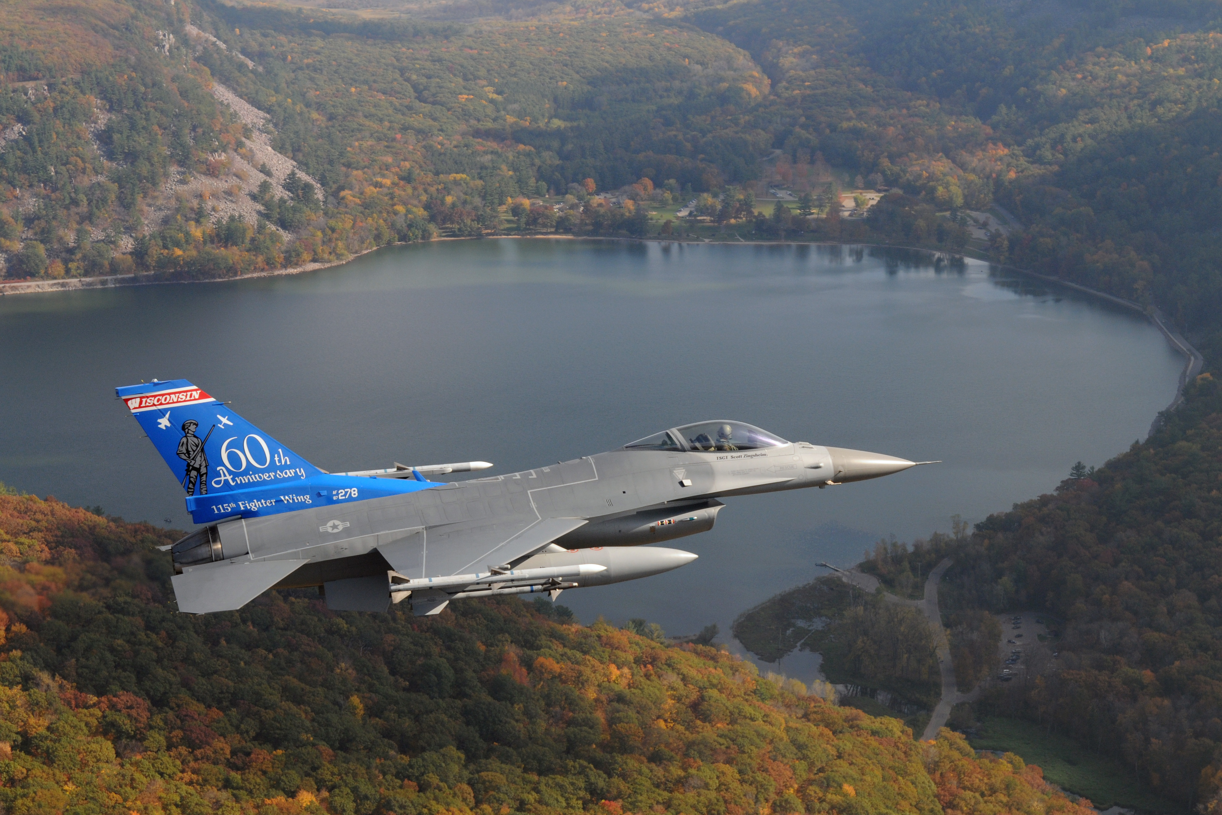 Wisconsin ANG F-16 over Devil's Lake